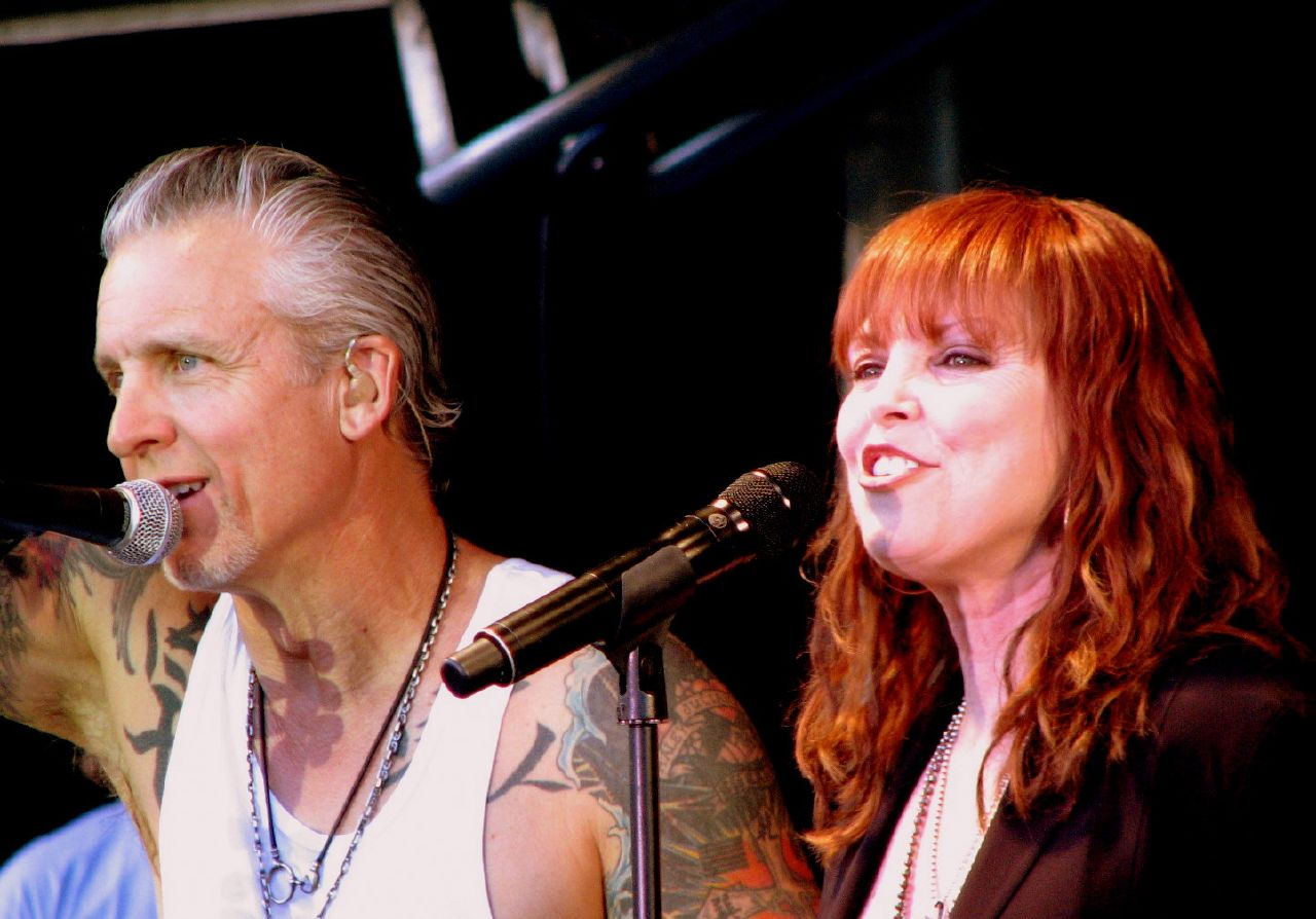 The american rock singer Pat Benatar with her Guitarist and husband Neil Giraldo in concert in Beaumont, CA